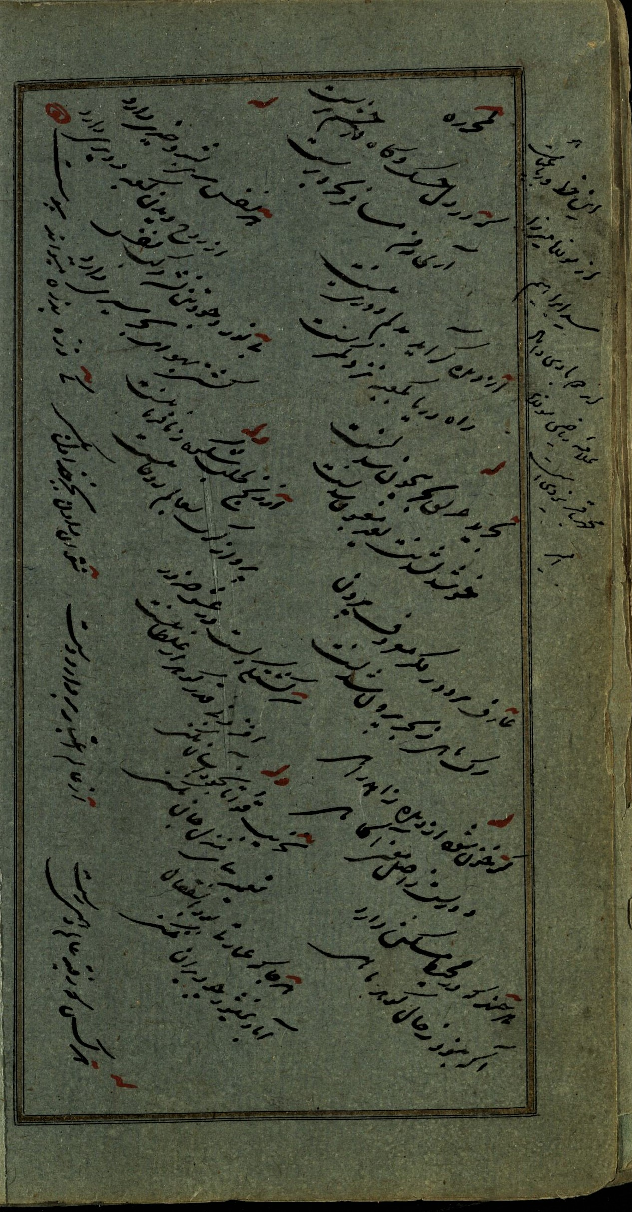 Author: Ibrahim Ordubadi Pomes by Ibrahim Ordubadi in literary collection compiled by Mirza Muhammad-Fayaz Sabzevari Central Library and Documentation Center of the University of Tehran Reference Number: 9707, page: 207 (back)